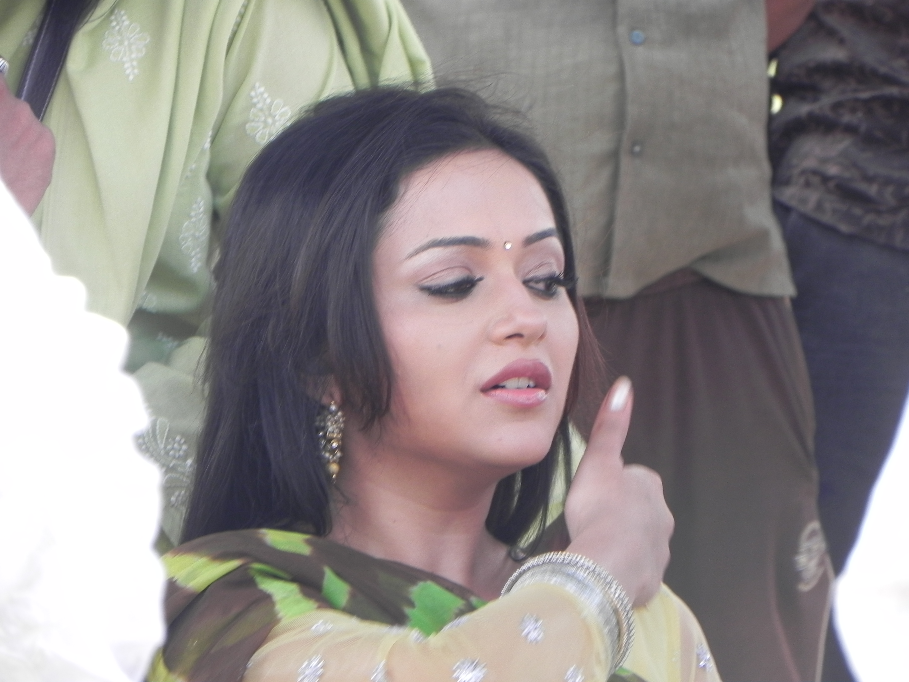 Indian TV actress Ragini Nandwani, at the location of "Mrs. Kaushik Ki Paanch Bahuein" in Jaipur.